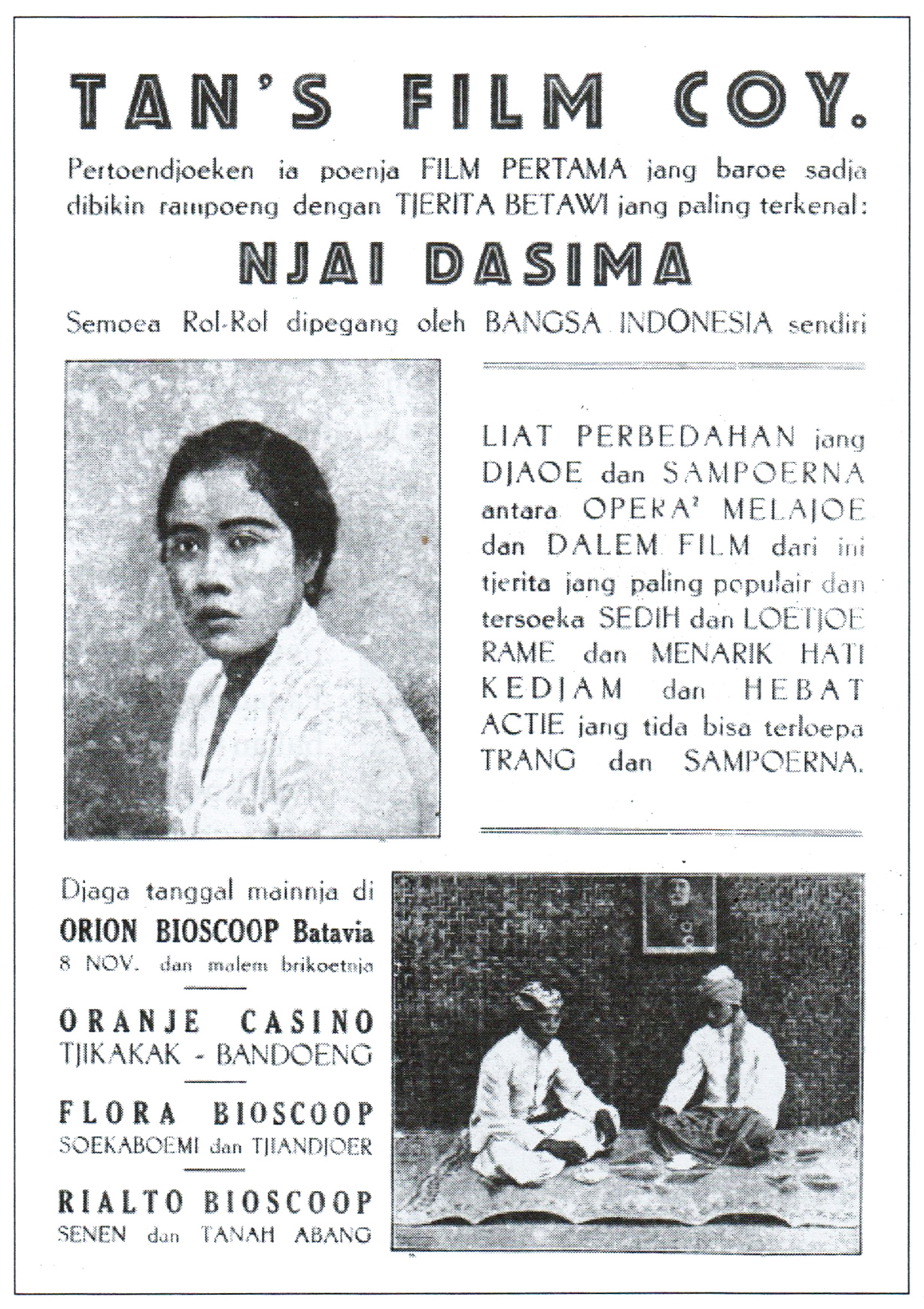 Movie poster for the film Njai Dasima (1929).